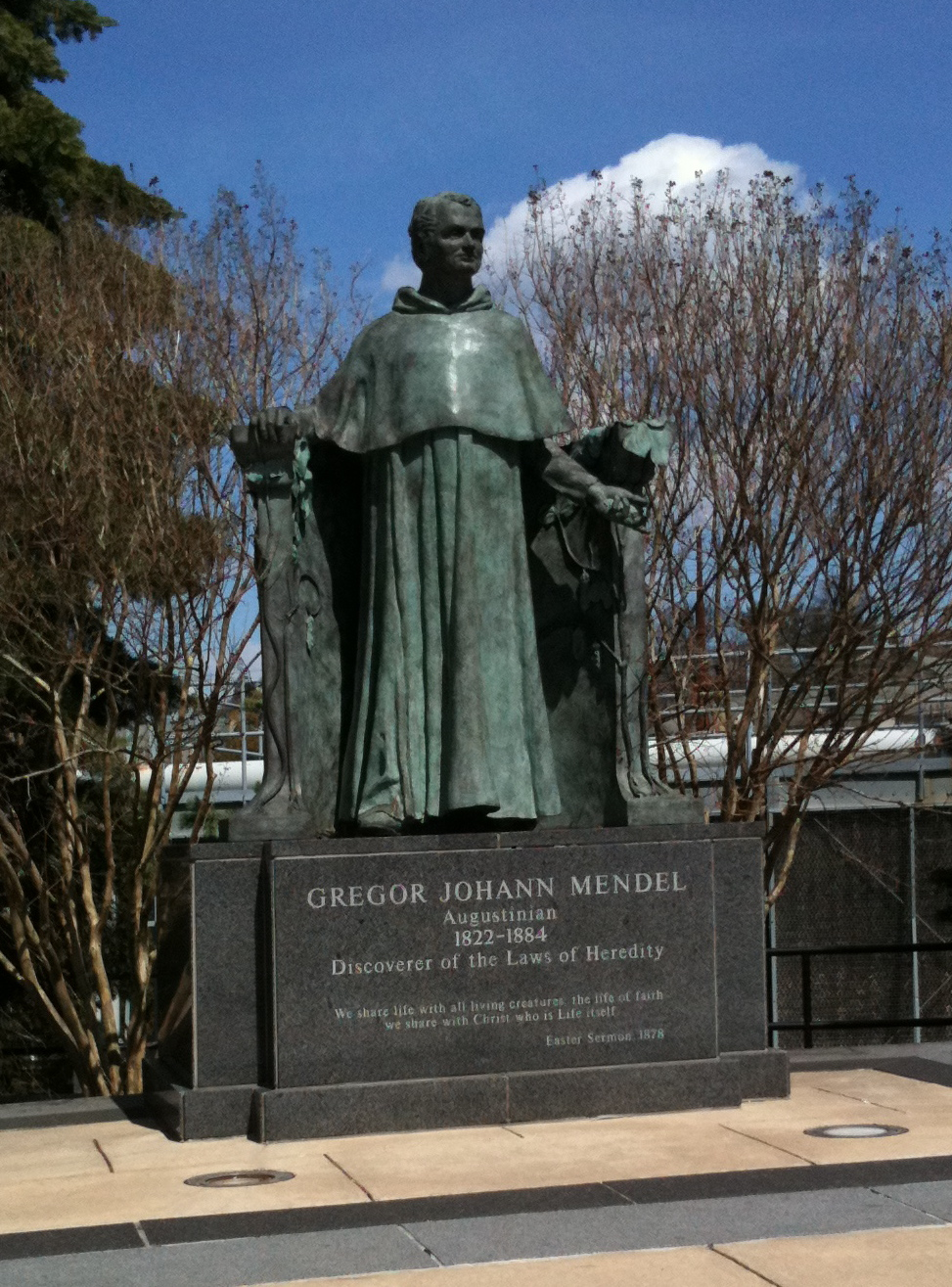 1998 statue of Gregor Mendel on the Villanova University campus, Villanova, Pennsylvania, by James Peniston